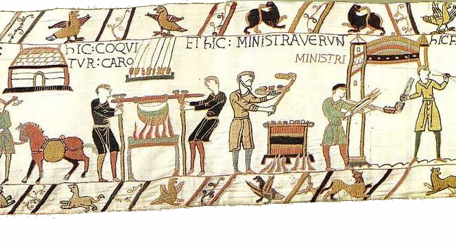 Bayeux Tapestry. Scene 42